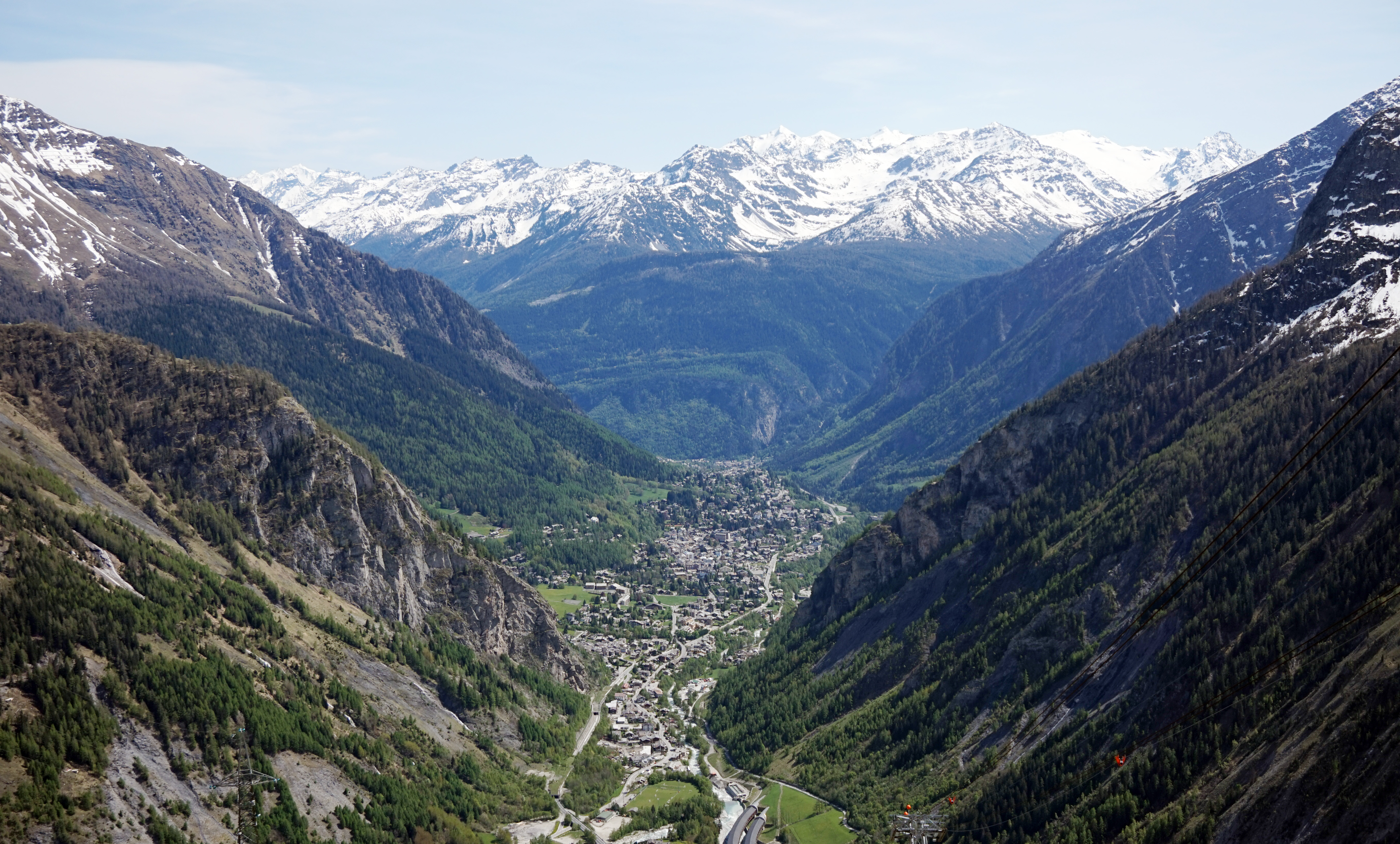 Courmayeur and mountains. View from Massif du Mount-Blanc.This photograph was taken with a Sony ILCE-5000